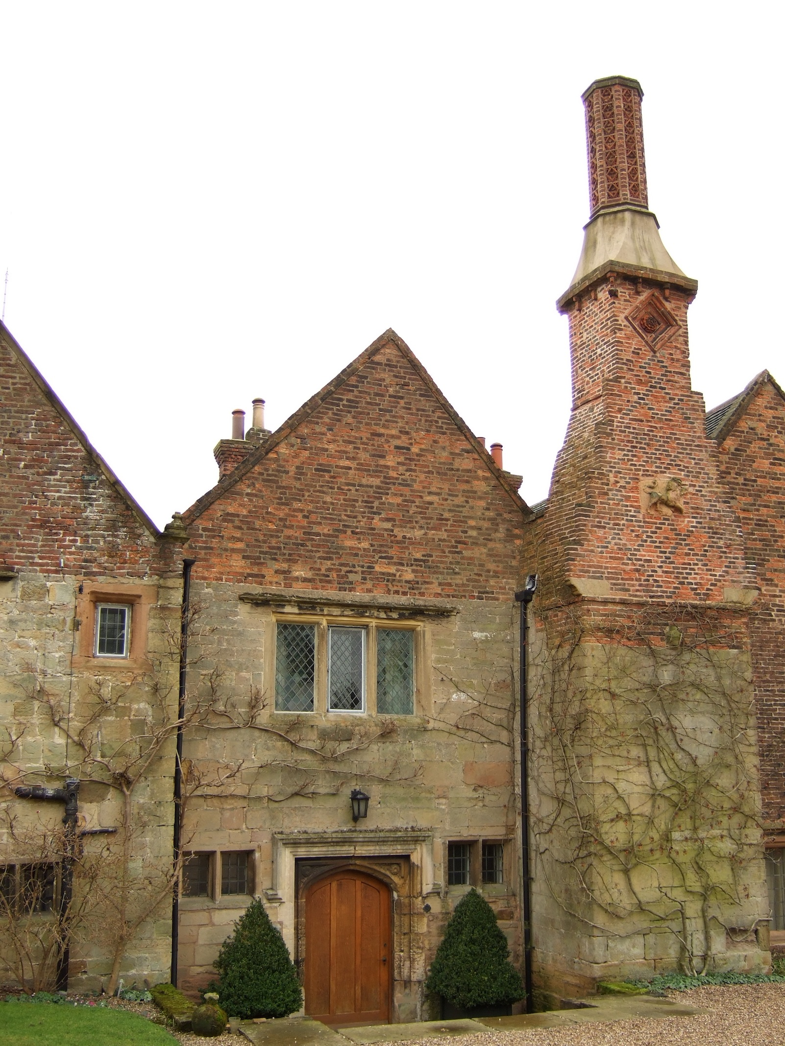 Front Door, Felley Priory, near to Underwood, Nottinghamshire, Great Britain.